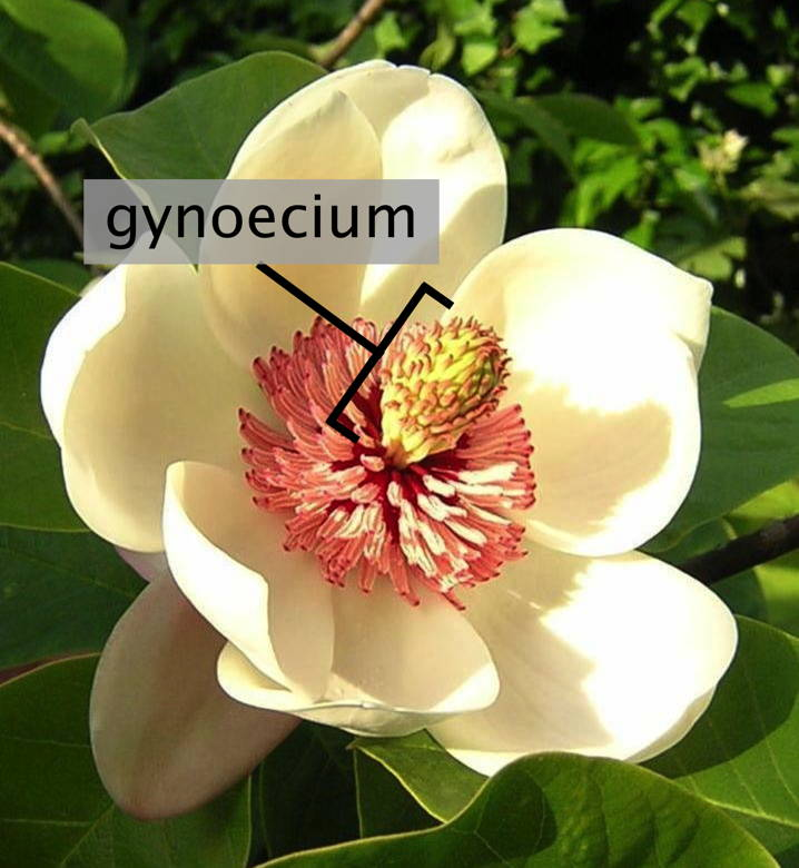 Flower of Magnolia wieseneri (syn. M. × watsonii, nom. illeg., a hybrid between M. obovata Thunb. and M. sieboldii K. Koch), with the gynoecium labelled